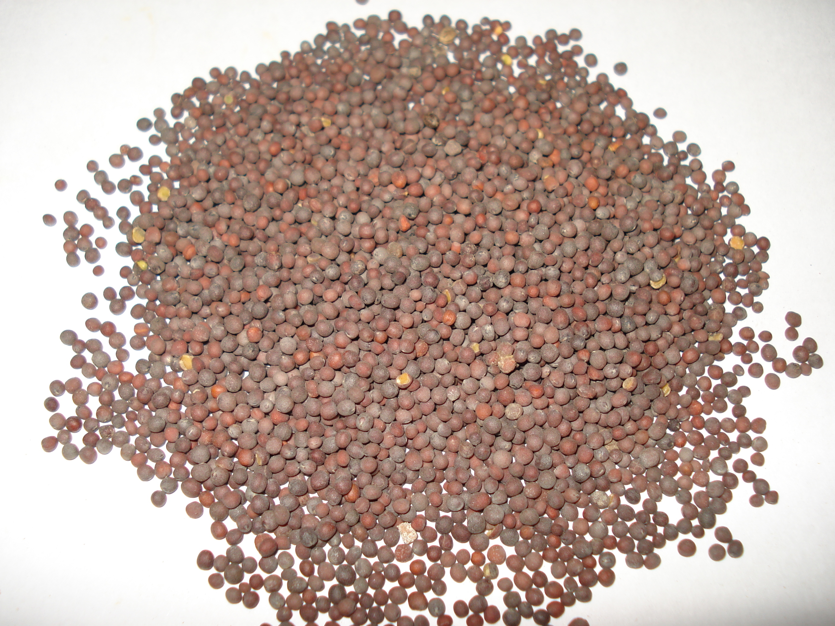 kali rai